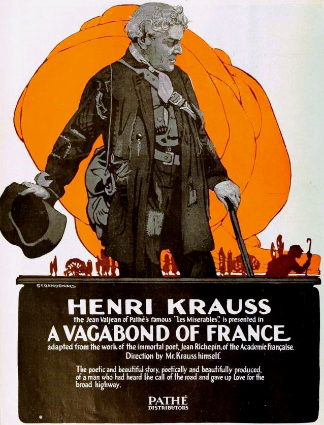 American advertisement for the French film Le chemineau (1917) (English title: A Vagabond of France) with Henry Krauss, on page 159 of the January 11, 1919 Moving Picture World. The ad consists of artwork and does not use any stills from the film.